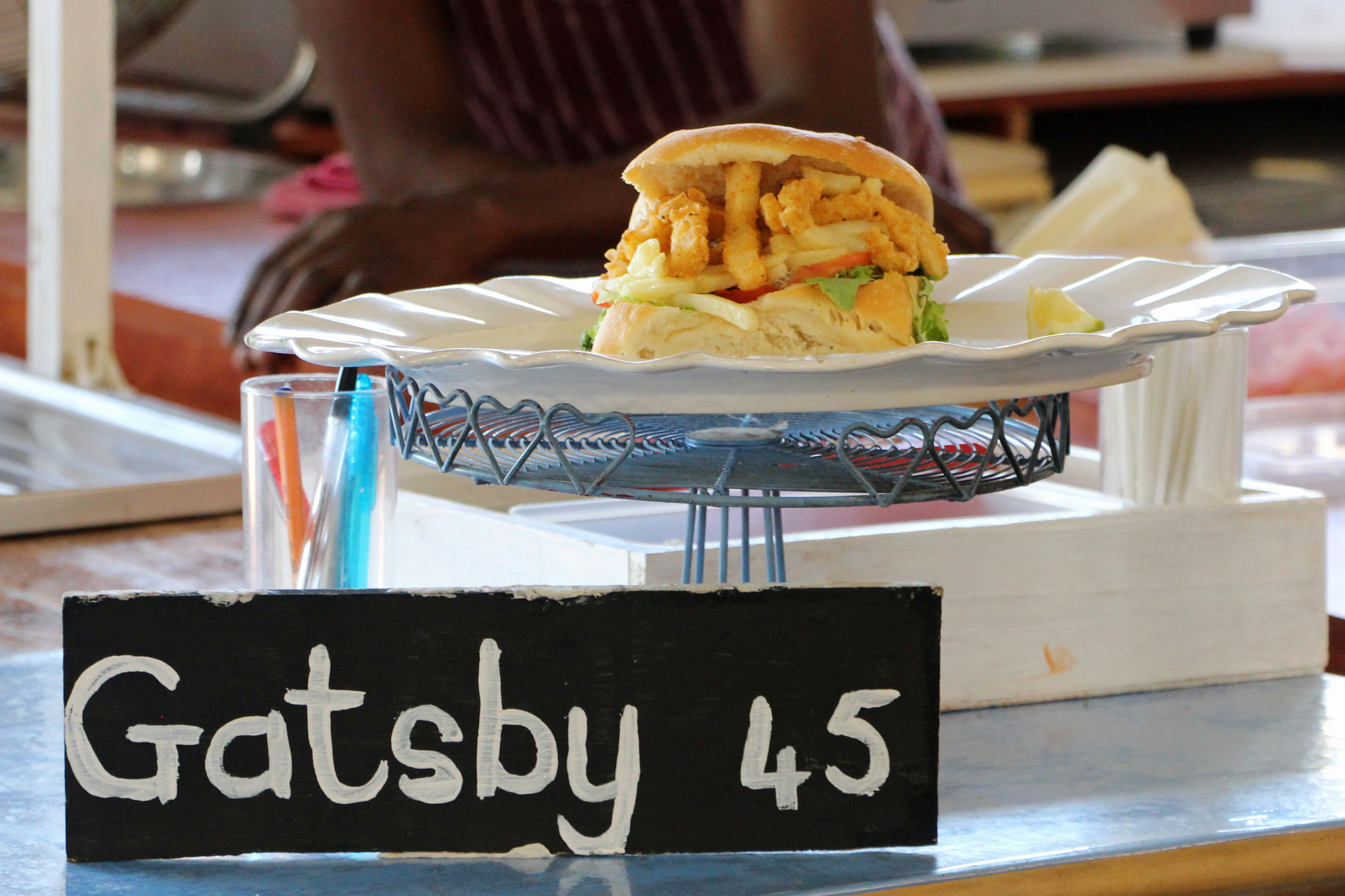 Gatsby sandwich filled with calamari and chips for sale at The Fish Stop stall at Root44 Market, Stellenbosch, South Africa